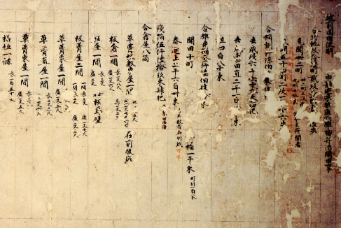 Documents relating to land use in Echizen Province in 755 (scroll 3); Important Cultural Property at Todaiji, Nara, Japan